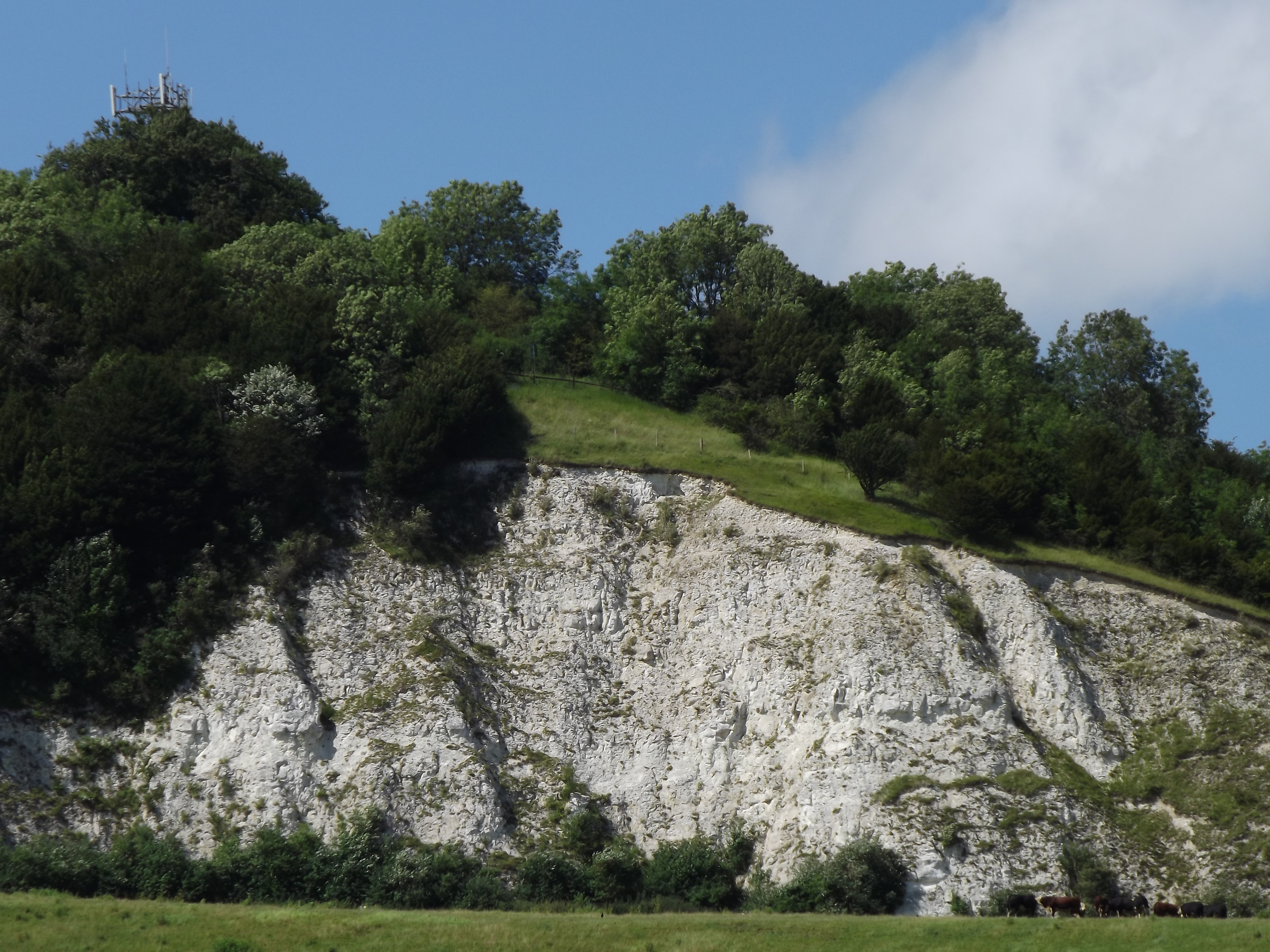 The exposed chalk workings of the former Betchworth Quarry on the south-facing scarp slope of Box Hill in Surrey. The transmitter mast, which stands on the summit of the hill (224 m) can be seen in the top left corner of the photo.